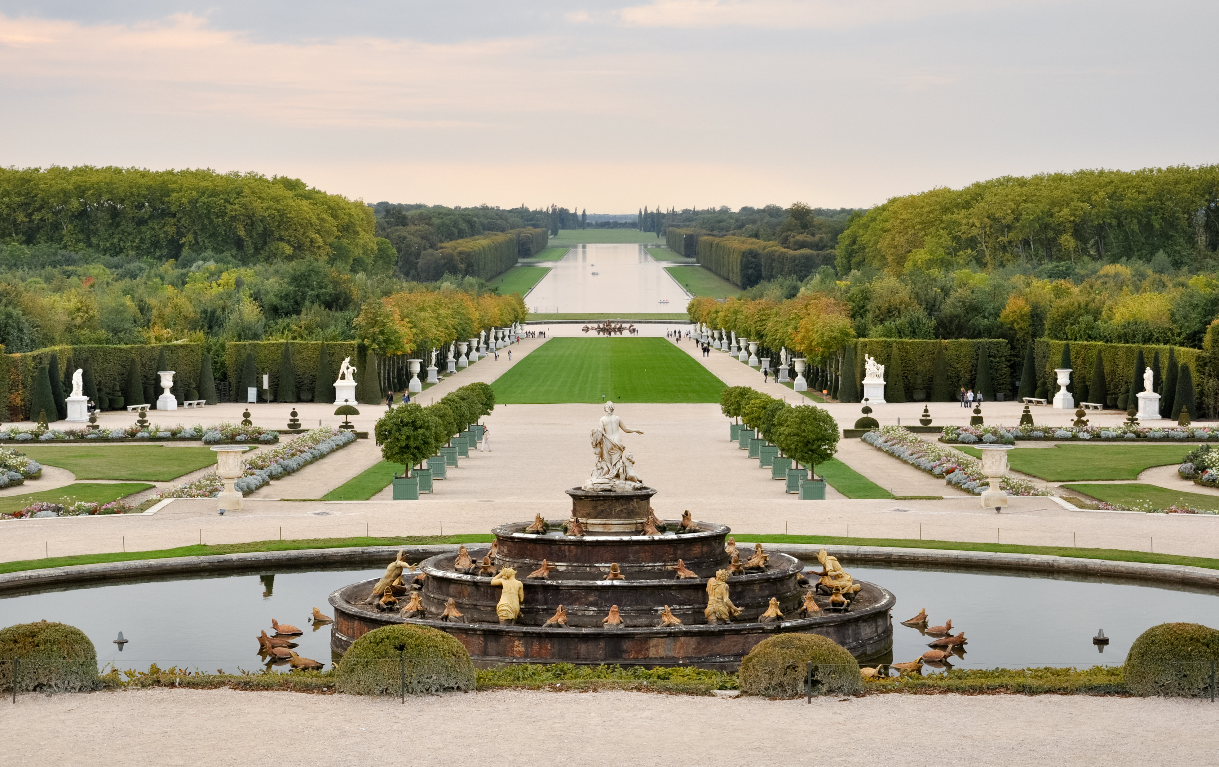 Versailles gardens view from "Parterre d'eau".